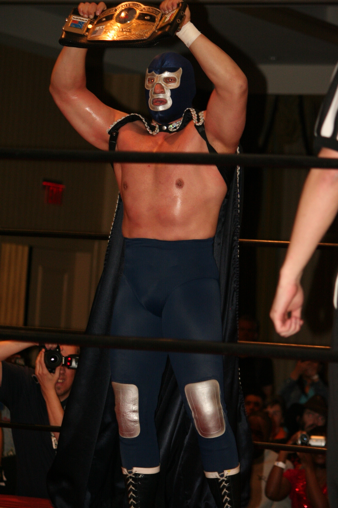 Professional wrestler Blue Demon, Jr. holding the NWA World Heavyweight Championship prior to a title defense on March 14, 2010.